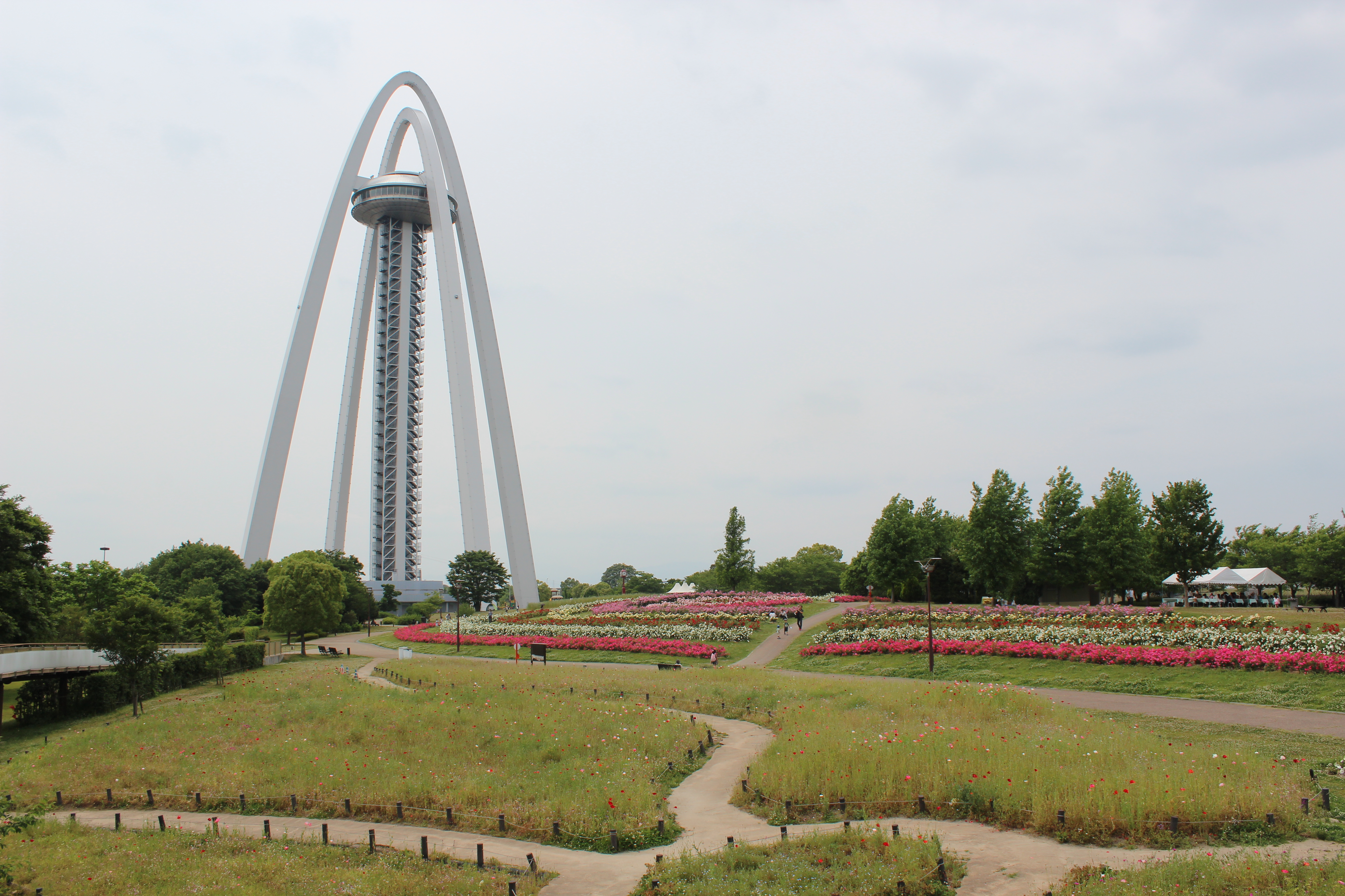 138 Tower Park in Ichinomiya, Aichi prefecture, Japan.